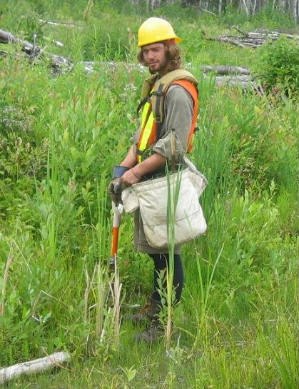 This is a picture of a Northern Ontario treeplanter